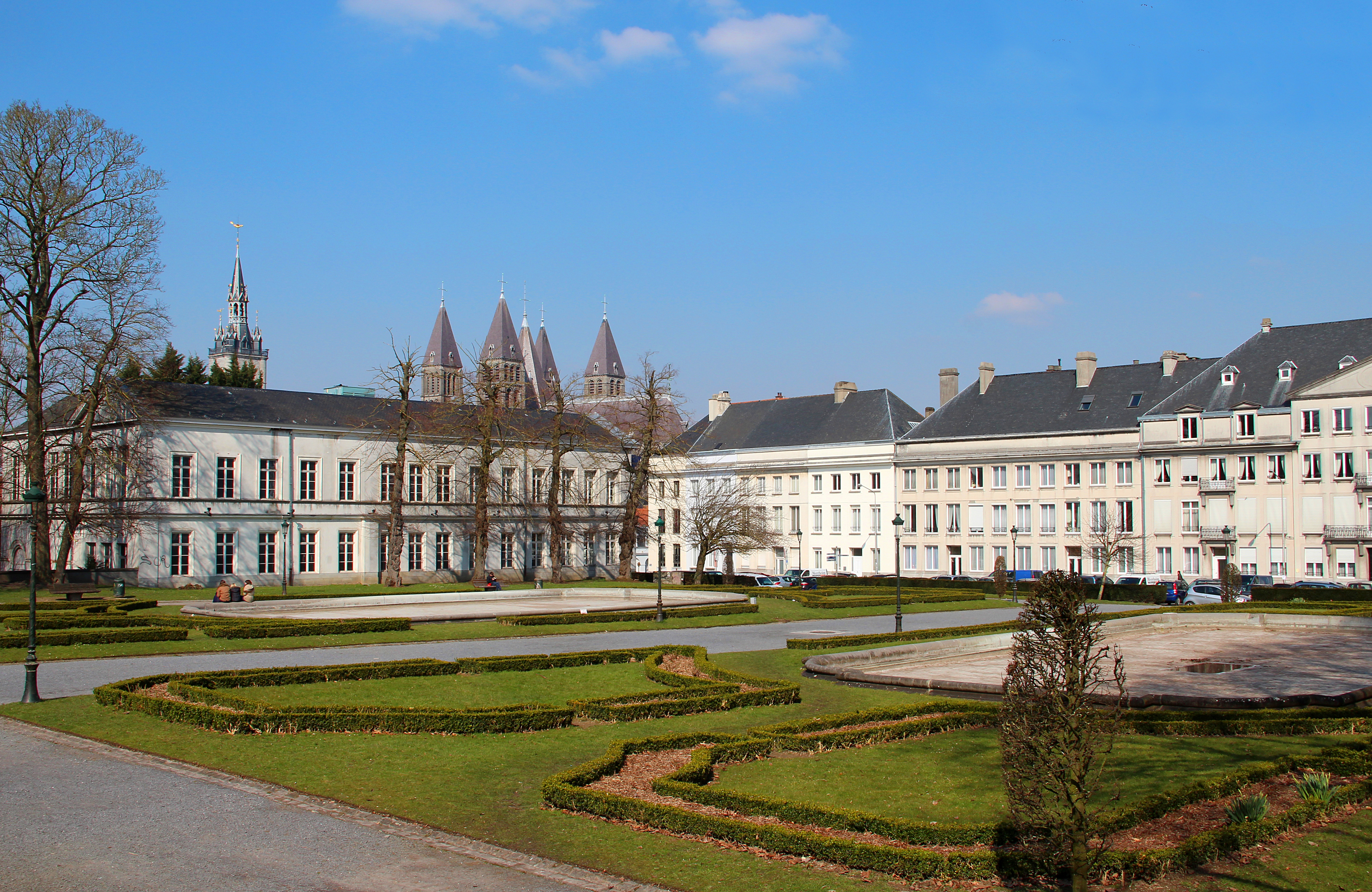 Tournai (Belgium), Parc Reine Astrid and Place Reine Astrid.